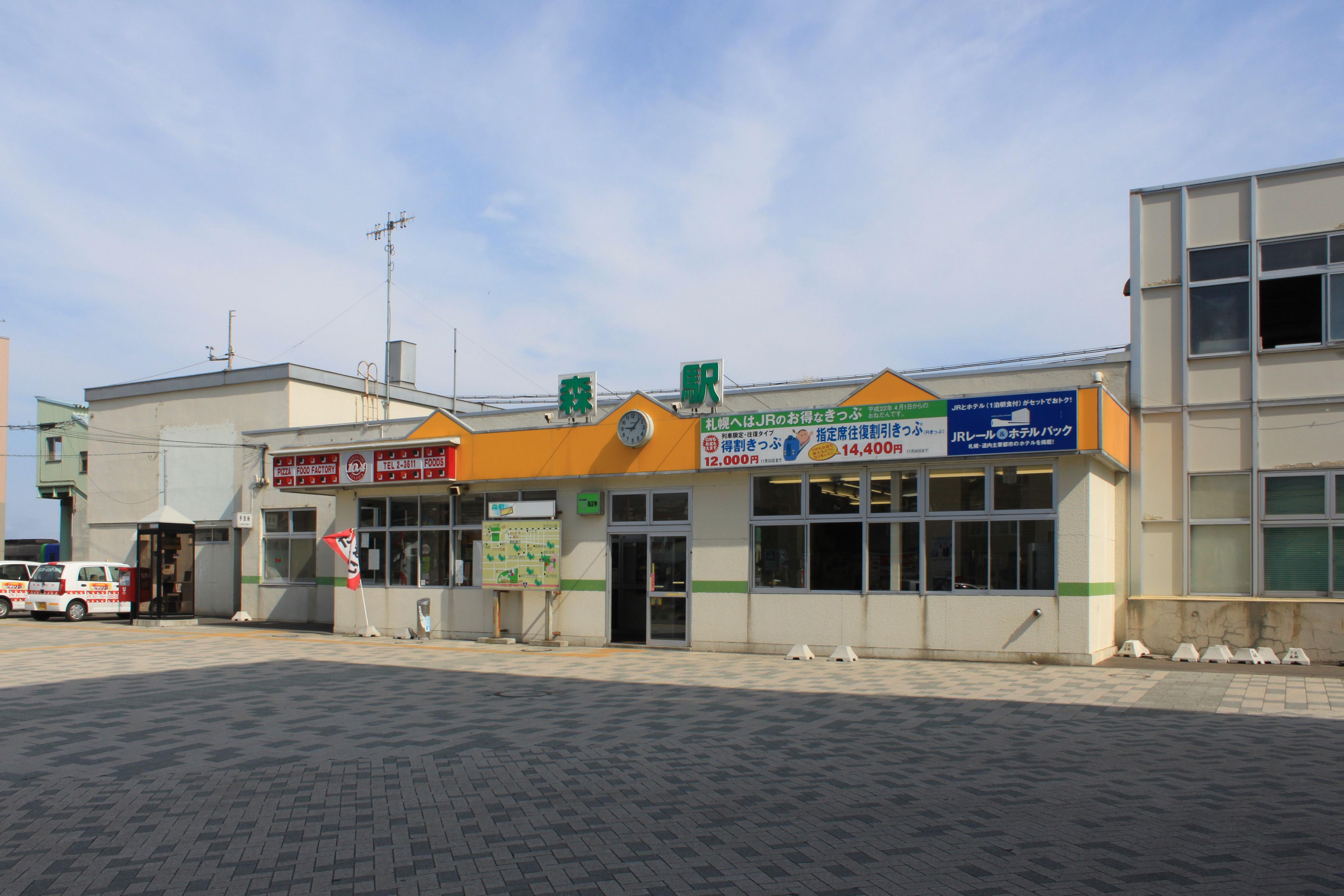 Mori Station in Hokkaido, Japan